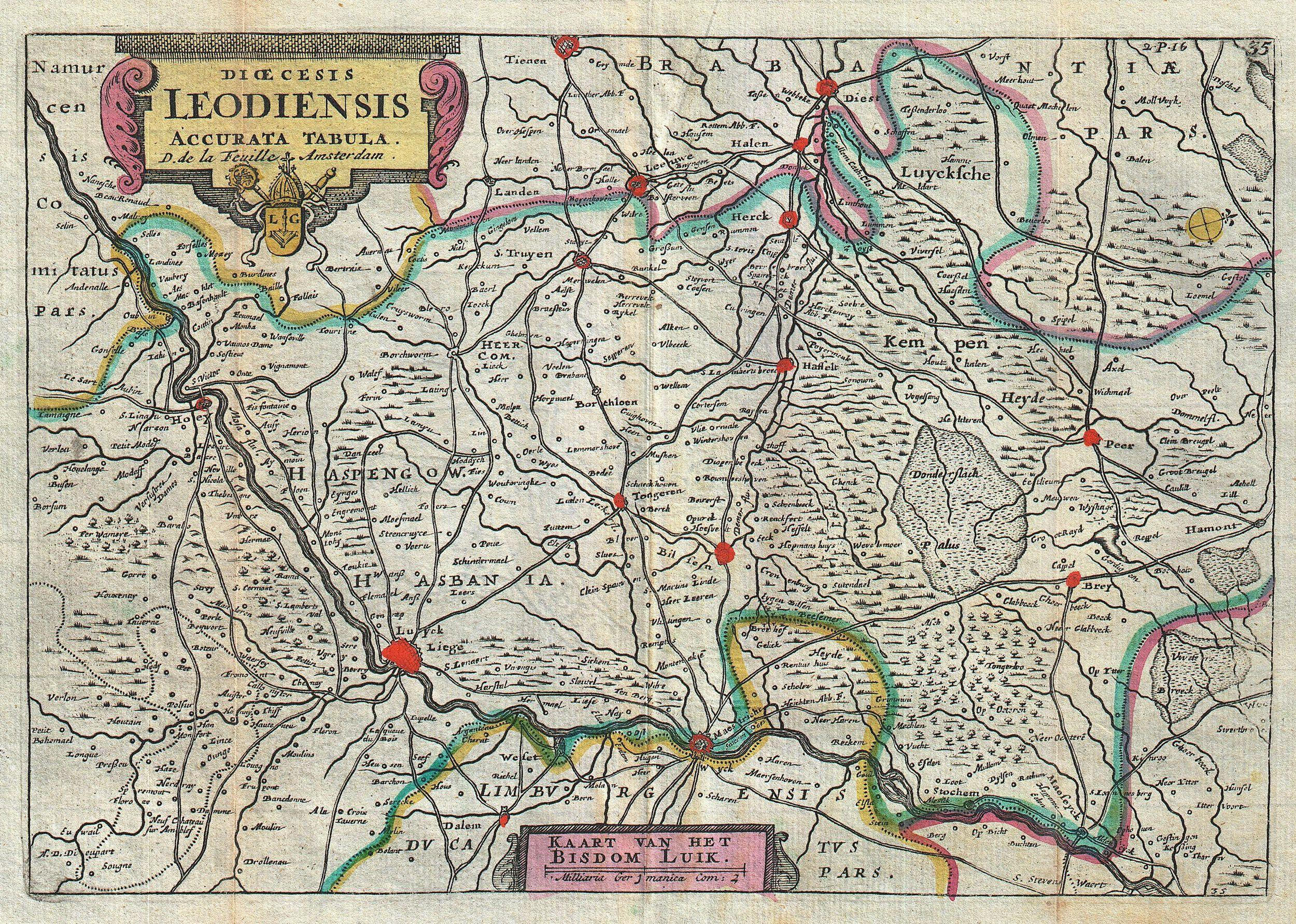 A stunning map of Leodiensis or the vicinity of Liege, Belgium first drawn by Daniel de la Feuille in 1706. Depicts from Hoey in the west eastward as far as Peer, southward as far as Dalem and northwards as far as Tienen. Latin title cartouche in the upper left quadrant features baroque decorations and an armorial crest. Dutch titlearea at bottom center. This is Paul de la Feuille’s 1747 reissue of his father Daniel’s 1706 map. Prepared for issue as plate no. 39 in J. Ratelband’s 1747 Geographisch-Toneel .